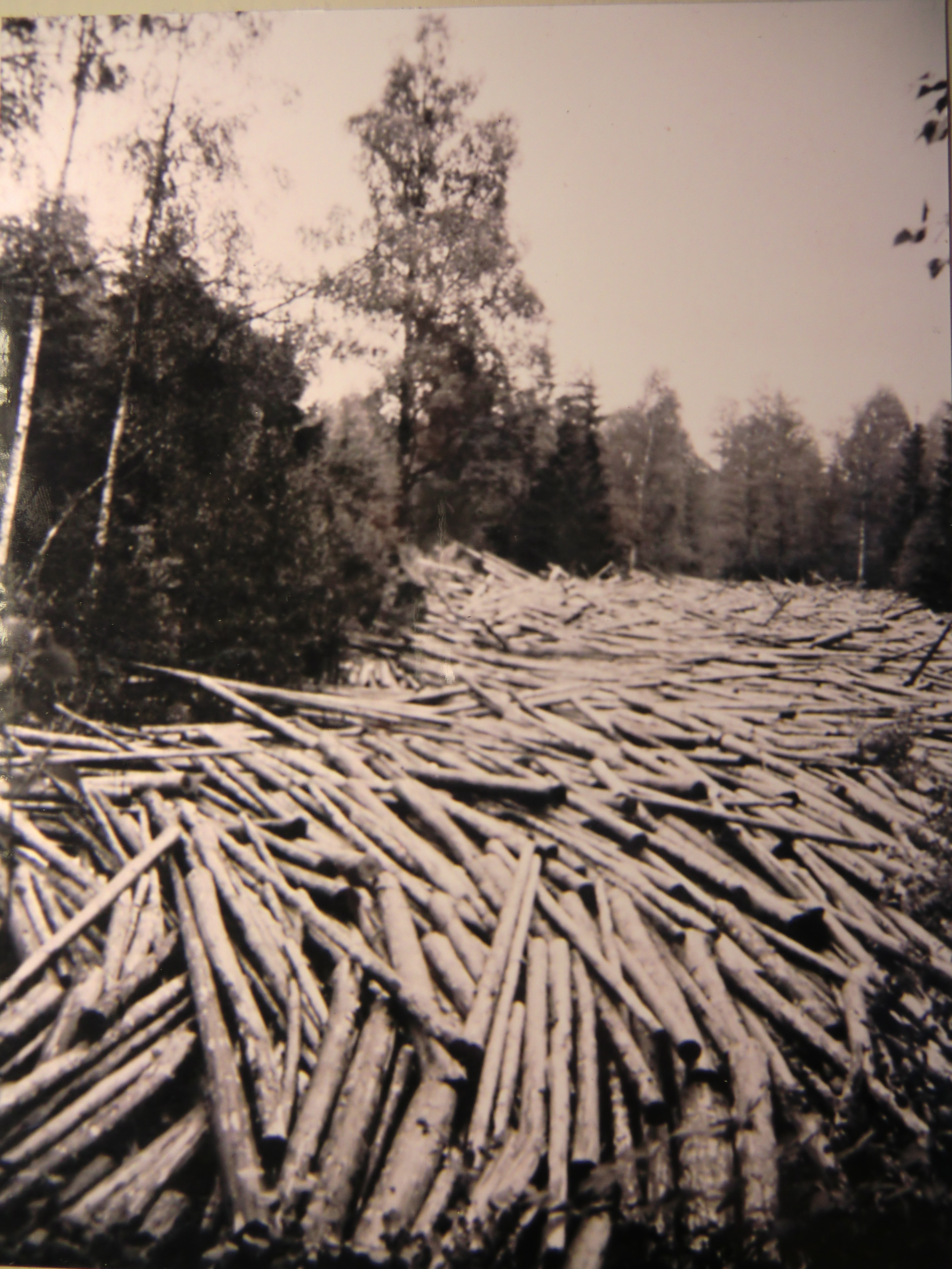 Log driving with problem in river Granån, Gräsmark, Sweden. June 1947.